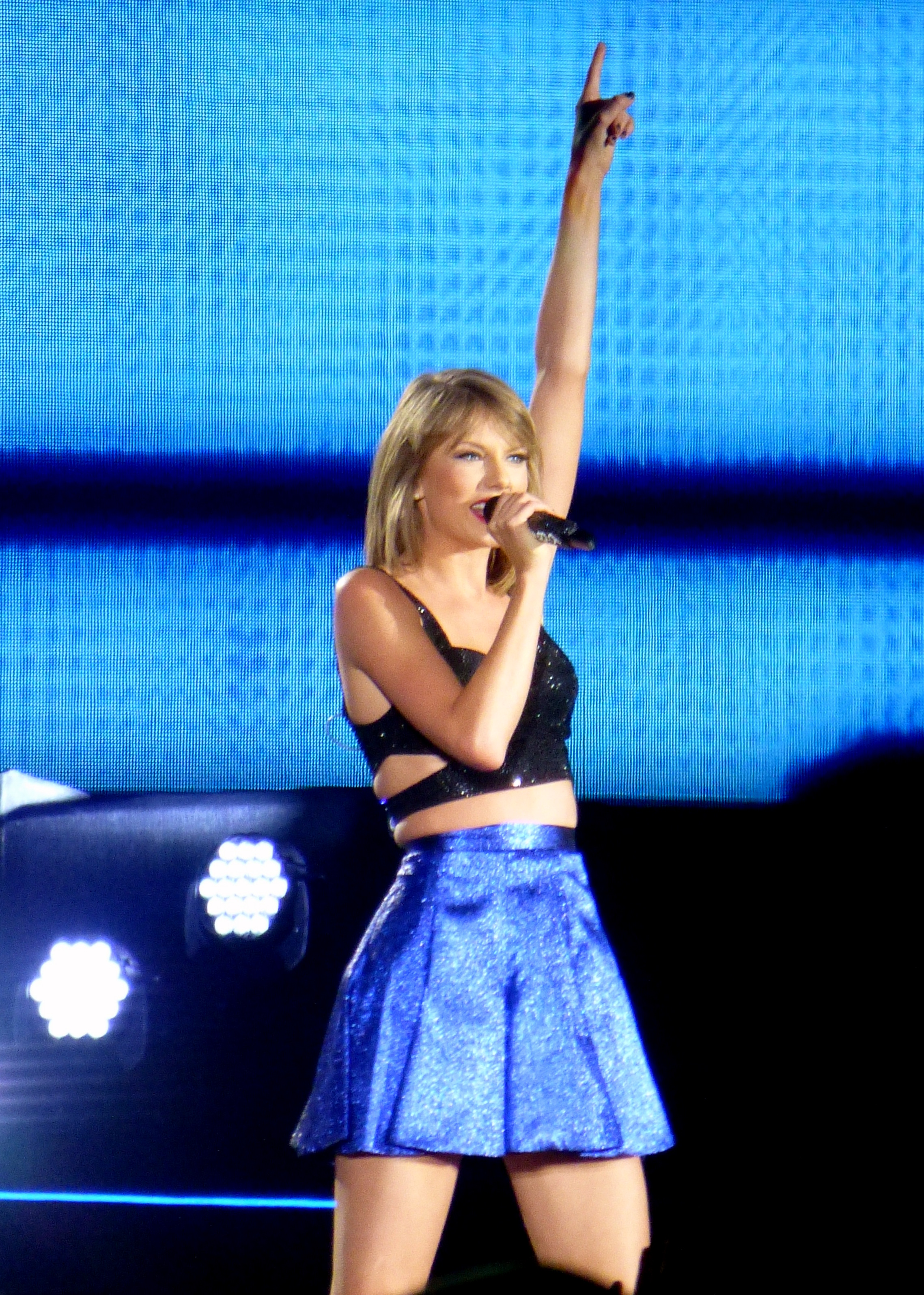 Taylor Swift 1989 Tour at Ford Field in Detroit, 5/30/15